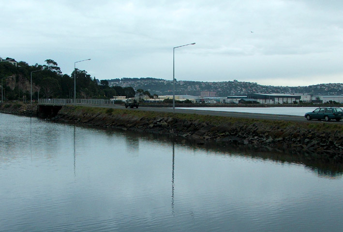 Photograph of Andersons Bay Causeway, Dunedin, New Zealand.